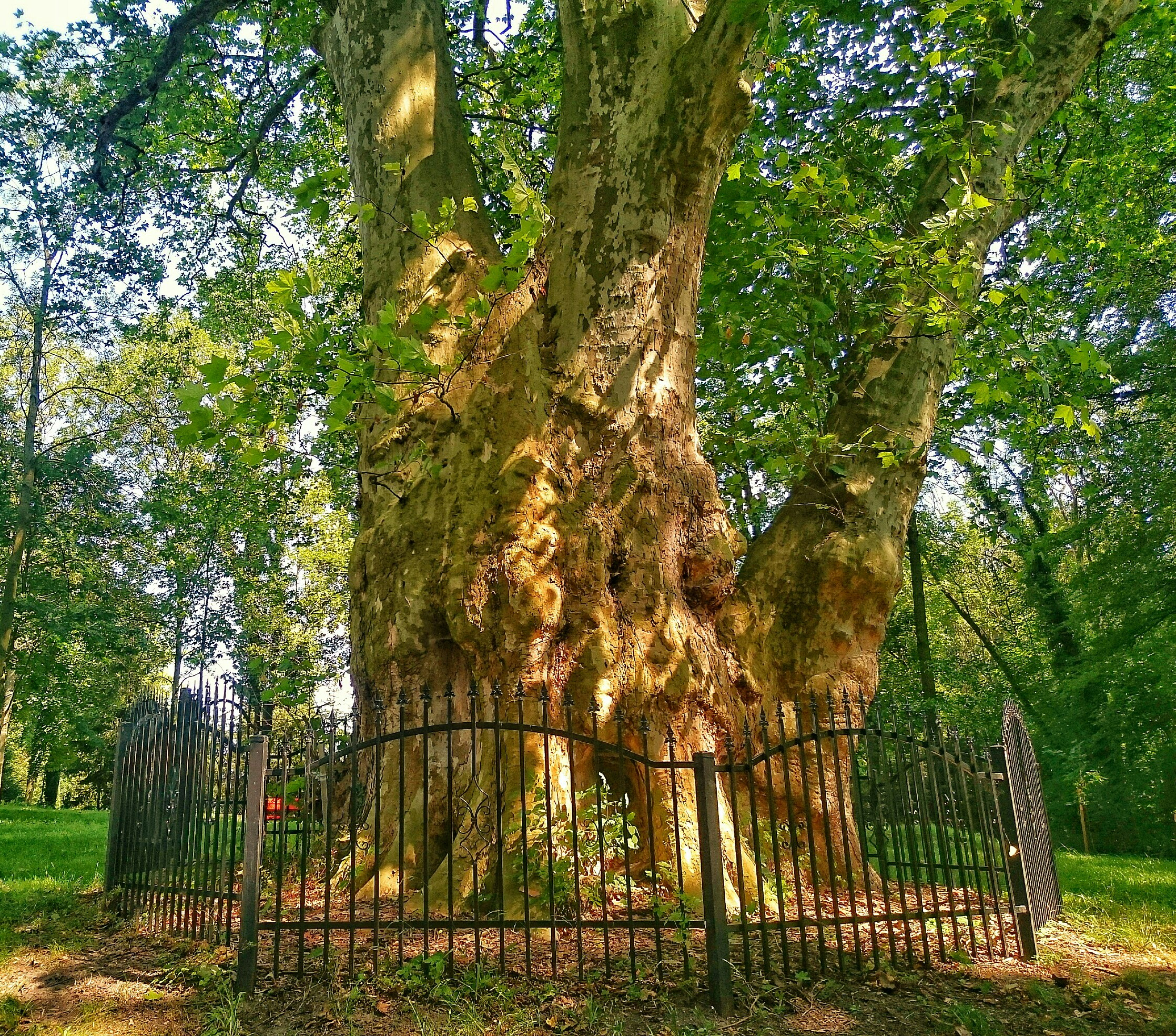 Trunk of the plane, visible from the West.